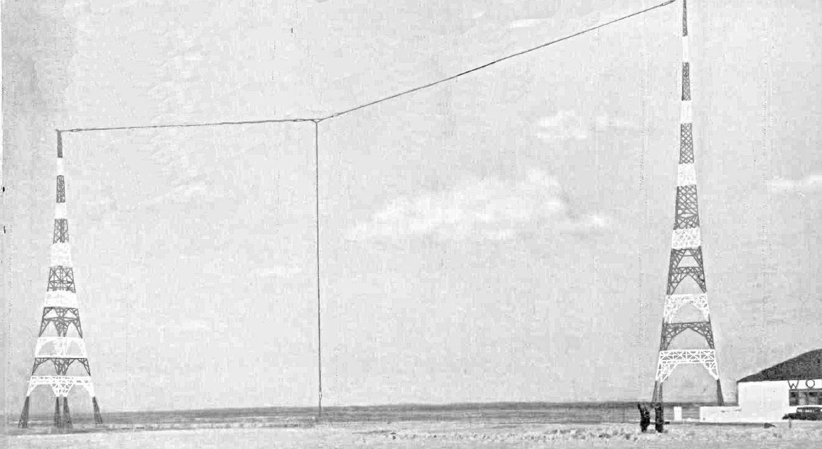 Antenna of AM radio station WOR in Newark, New Jersey, from an advertisement in a 1935 magazine. It is a T antenna consisting of a horizontal wire suspended by insulators between two towers, with a vertical wire hanging down from the center. The power from the transmitter is applied between the bottom of the vertical element and a ground connection. Alterations to image: cloned in center portions of antenna wire and sky obscured by advertising copy.